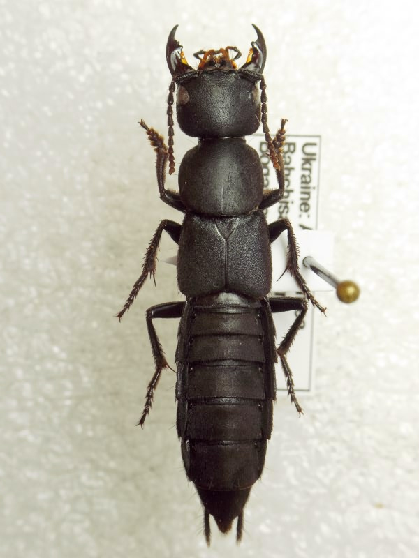 Ocypus curtipennis